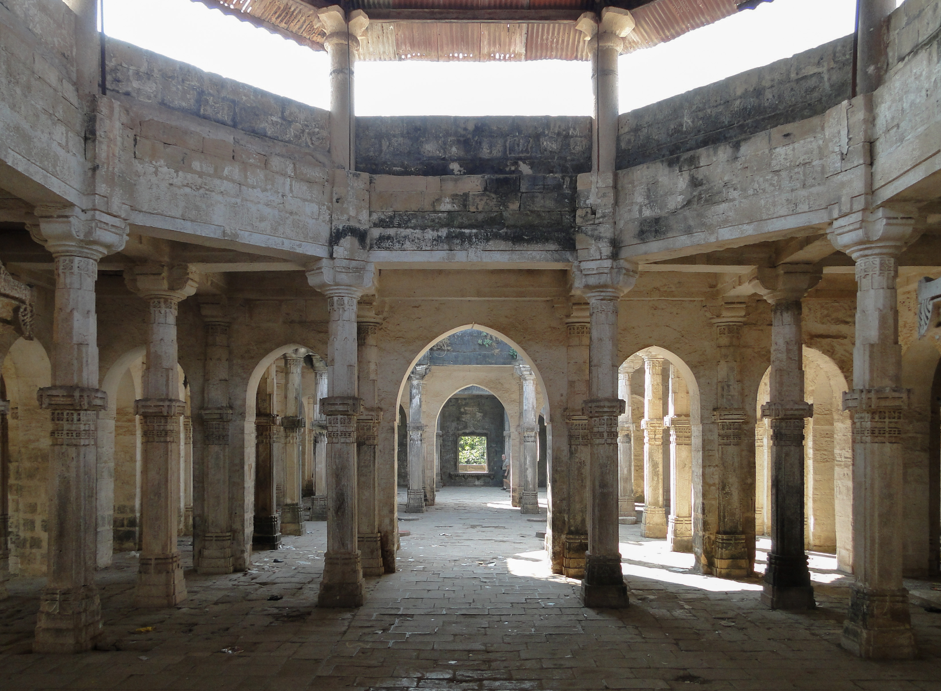 Interior of the Jama Masjid in the Uperkot Fort, Junagadh, India